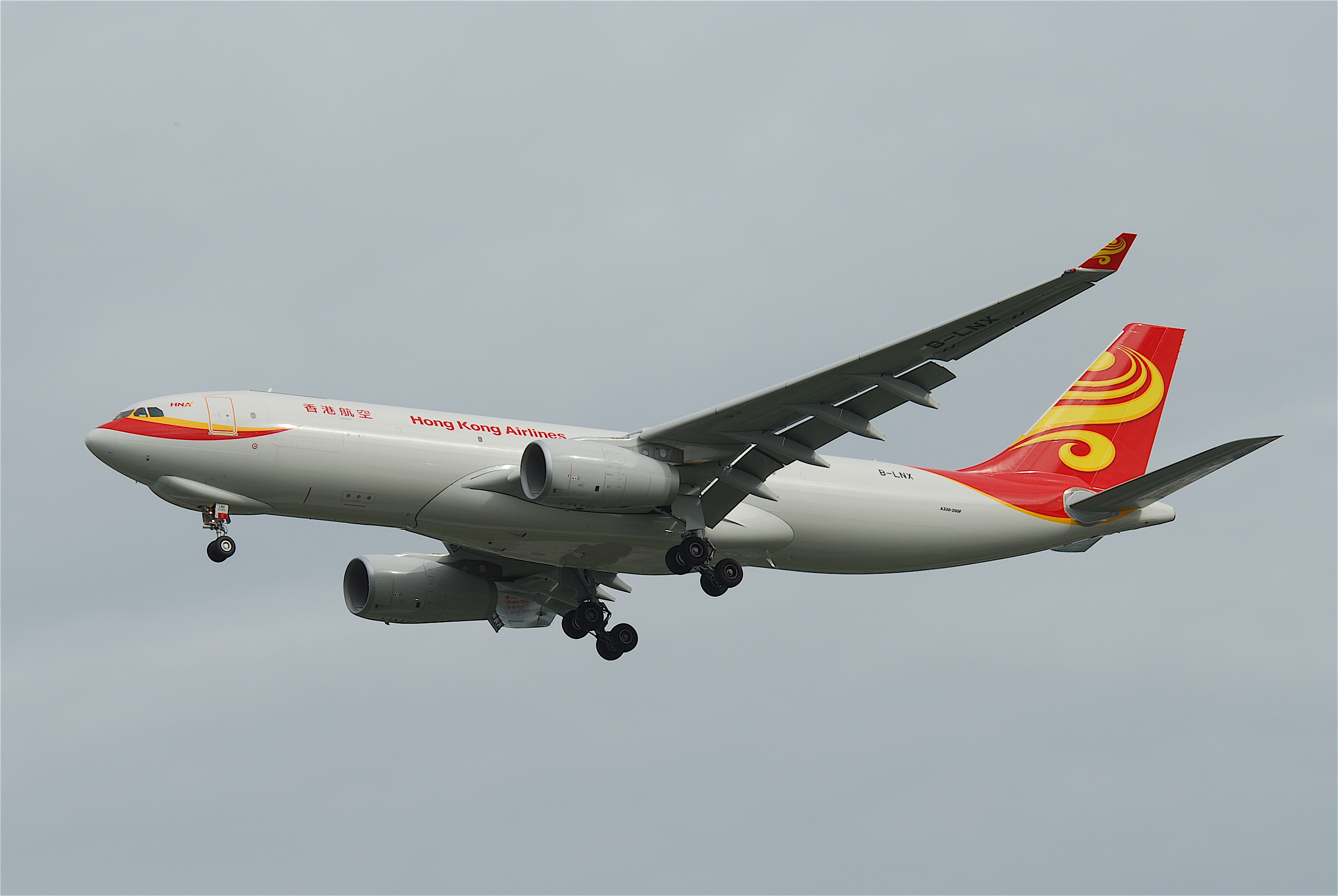 HongKong Airlines Airbus A330-200F; B-LNX@BKK;30.07.2011/613bs